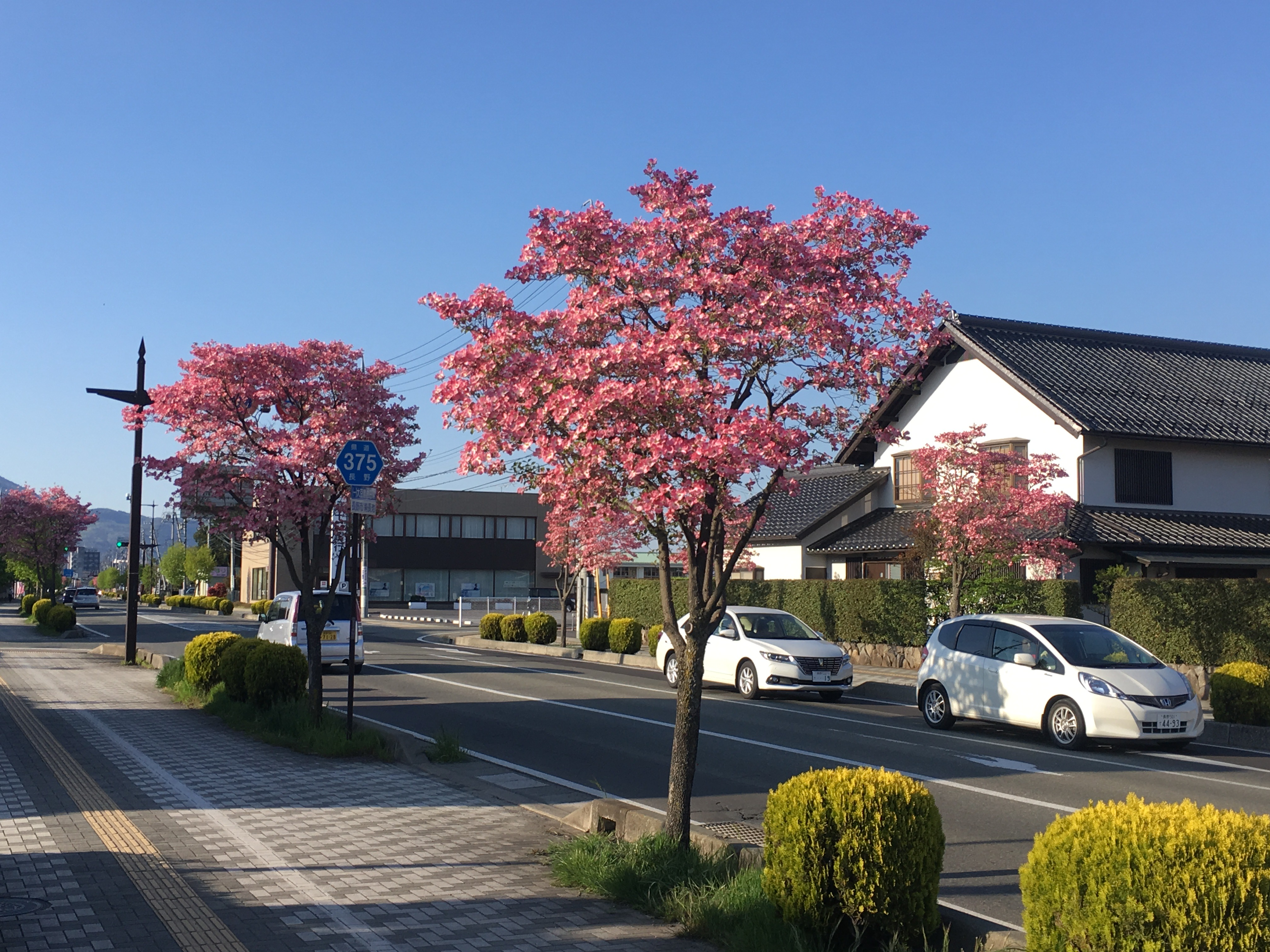 This is a photo of a dogwood tree in Nagano City, Japan.